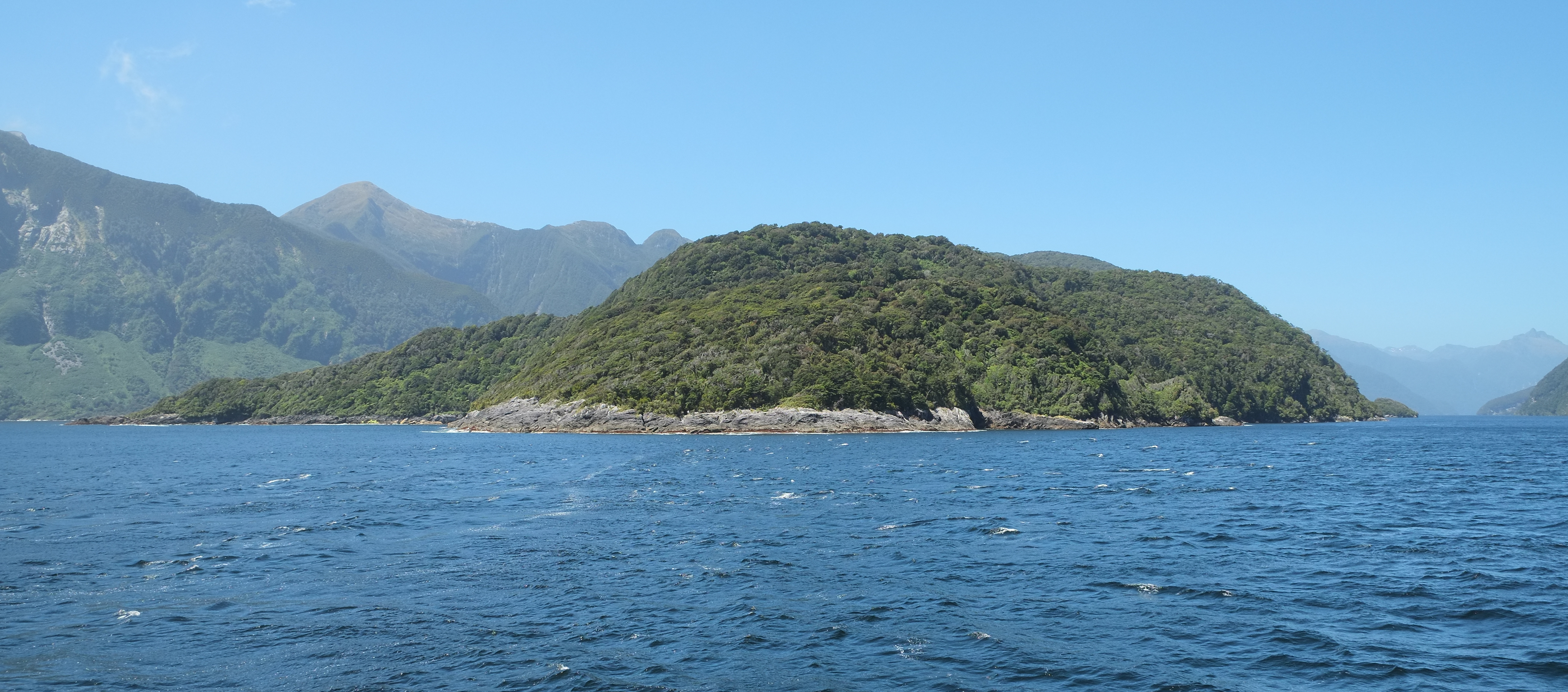 Bauza Island in Doubtful Sound; Patea Passage with a view into Malaspina Reach to the right of the island